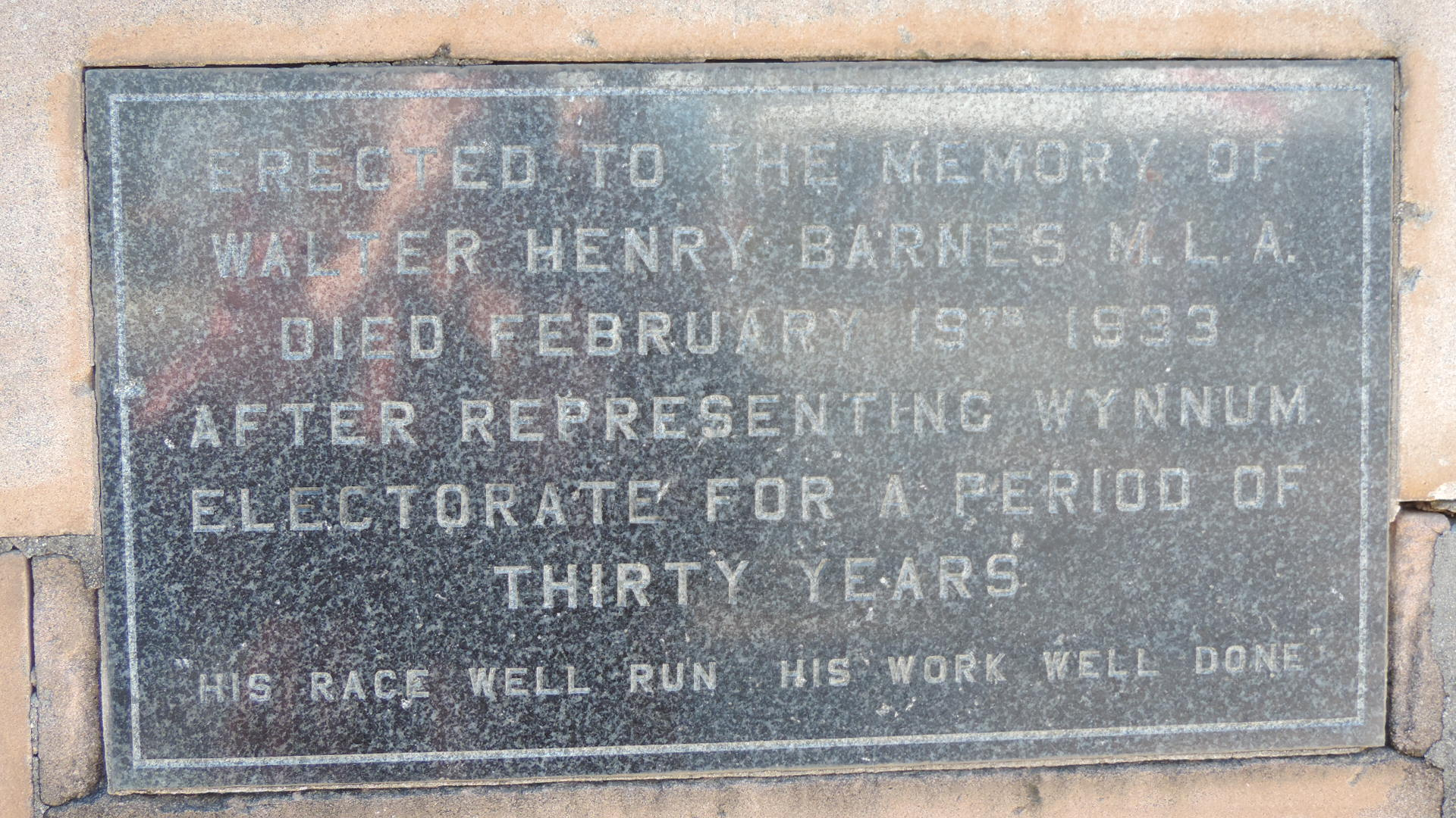 Tablet, Memorial to Walter Henry Barnes, Wynnum, 2014